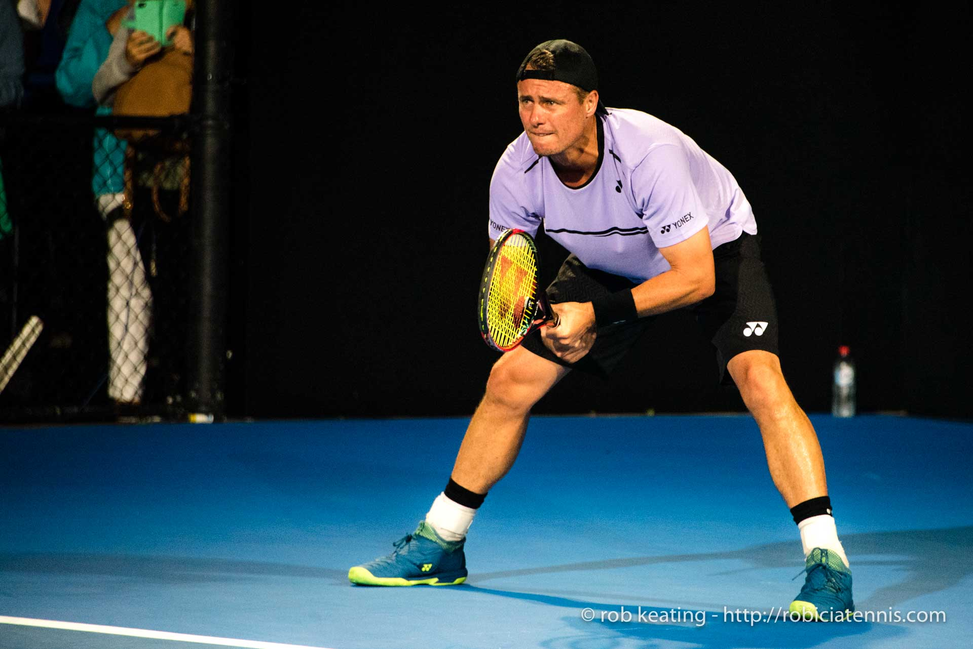 Sydney, Australia - 10 January 2019: Lleyton Hewitt a from Australia during a his Sydney International doubles quarterfinal match on court 3, Sydney Olympic Park. (Photo by Rob Keating/robiciatennis.com)